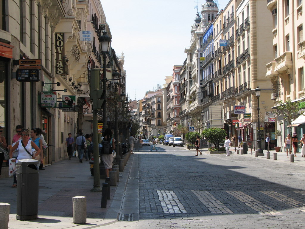 Calle Mayor (street) in Madrid (Spain).